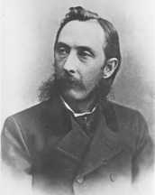 Portrait of Senator Lemuel Jackson Bowden of Virginia